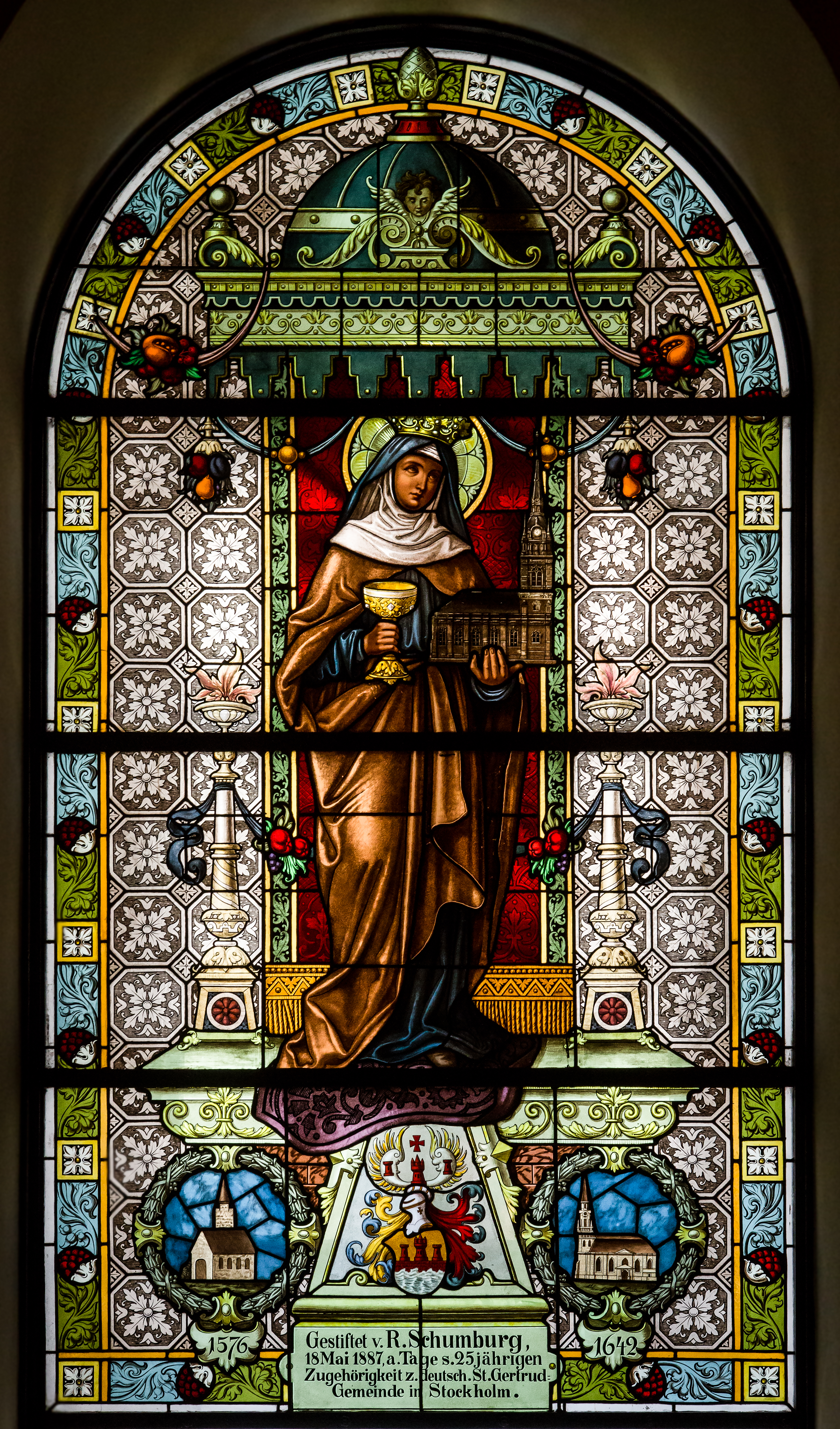 Saint Gertrude on a stained glass window in the German Church of Stockholm.